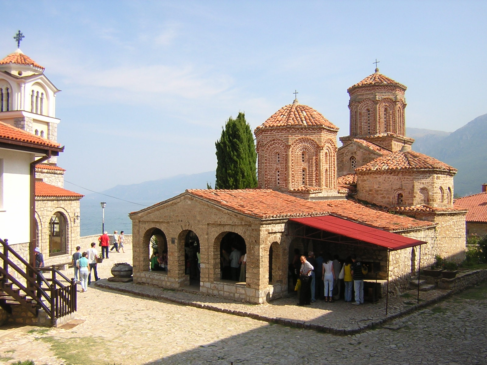 The monastry of St. Naum at lake Ohrid.